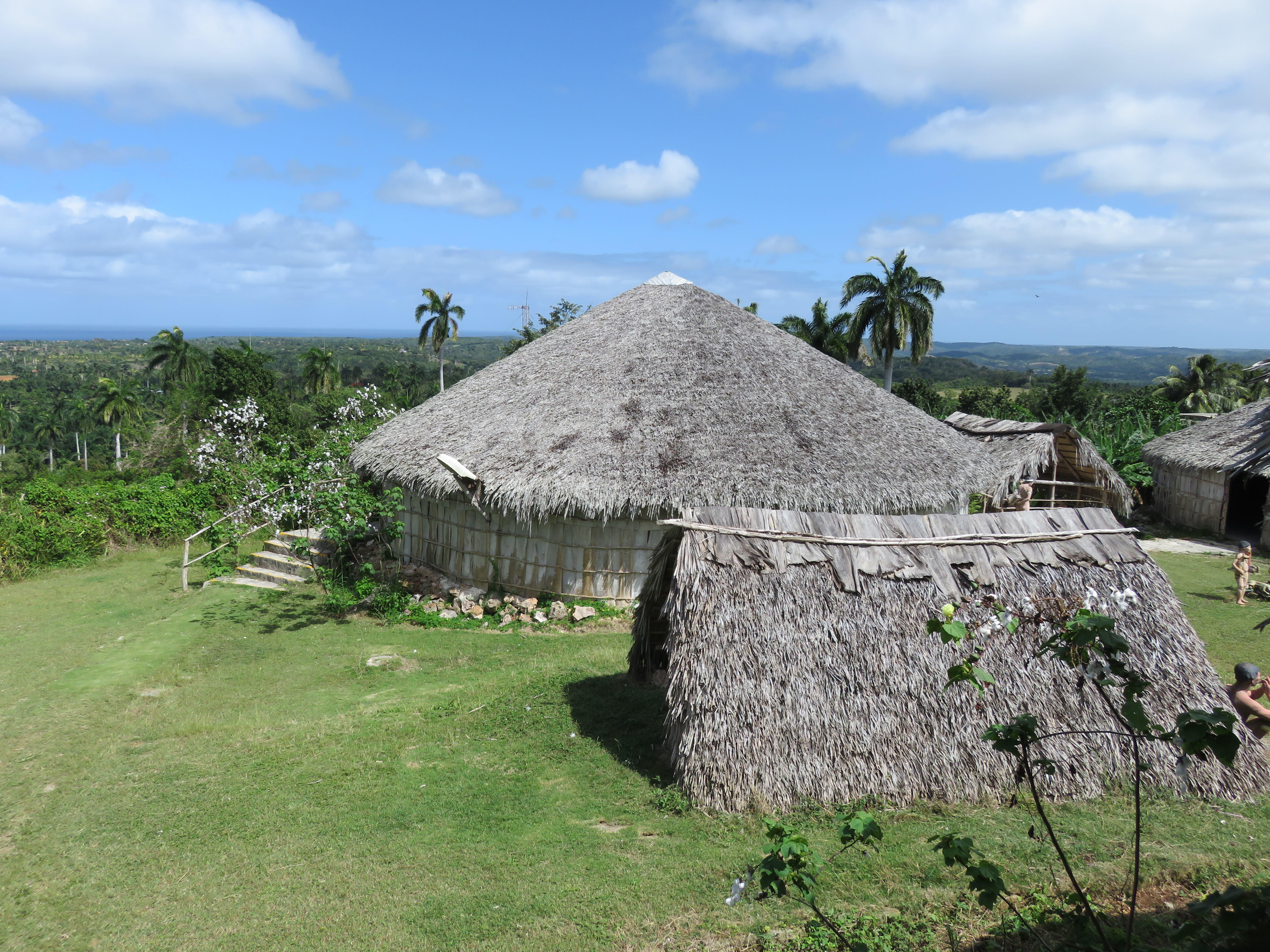 Reconstructed Dwellings at El Chorro de Maita Cuba on the original site of the village